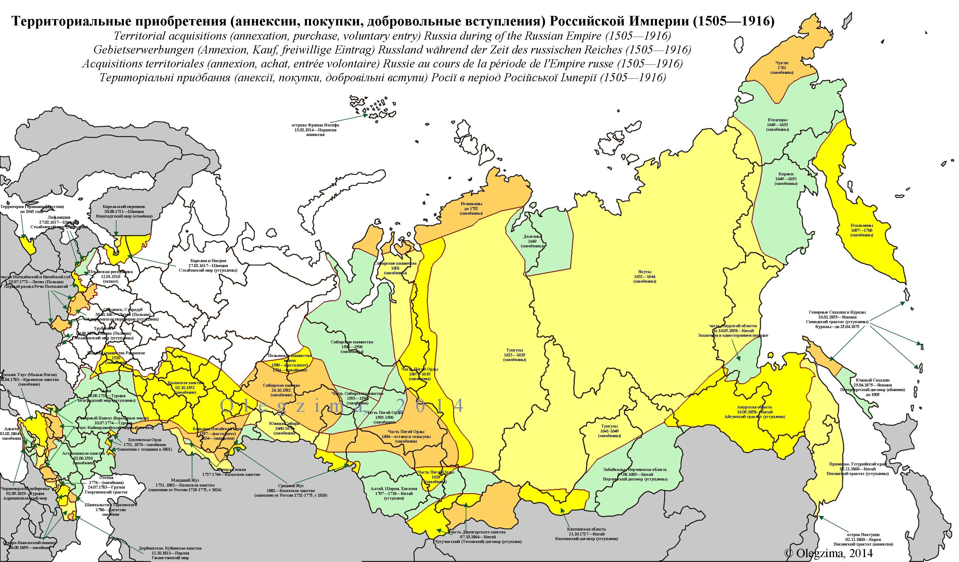 Territorial acquisitions (annexation, purchase, voluntary entry) Russia during of the Russian Empire (1505—1916)